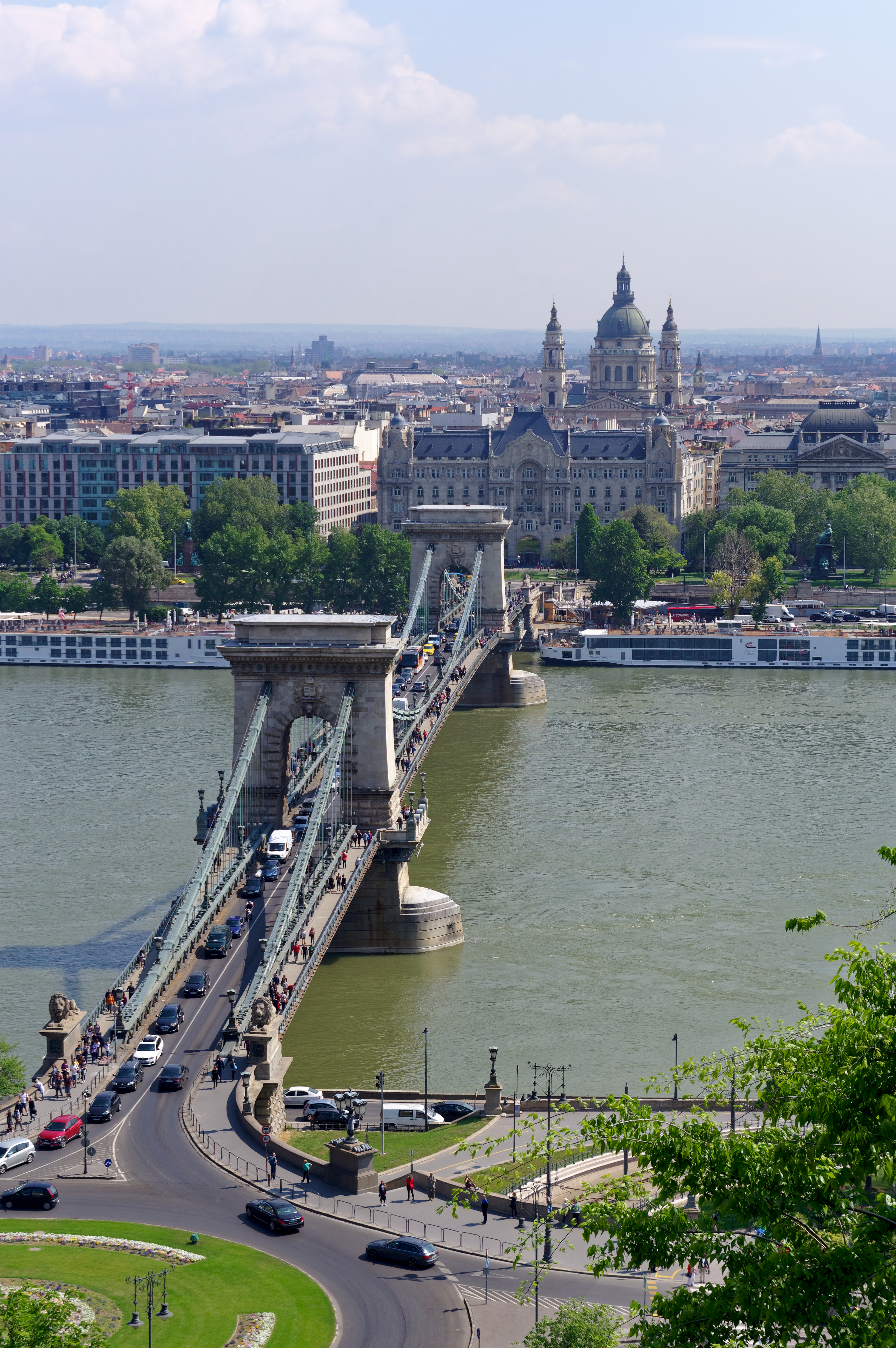 Chain Bridge, Budapest